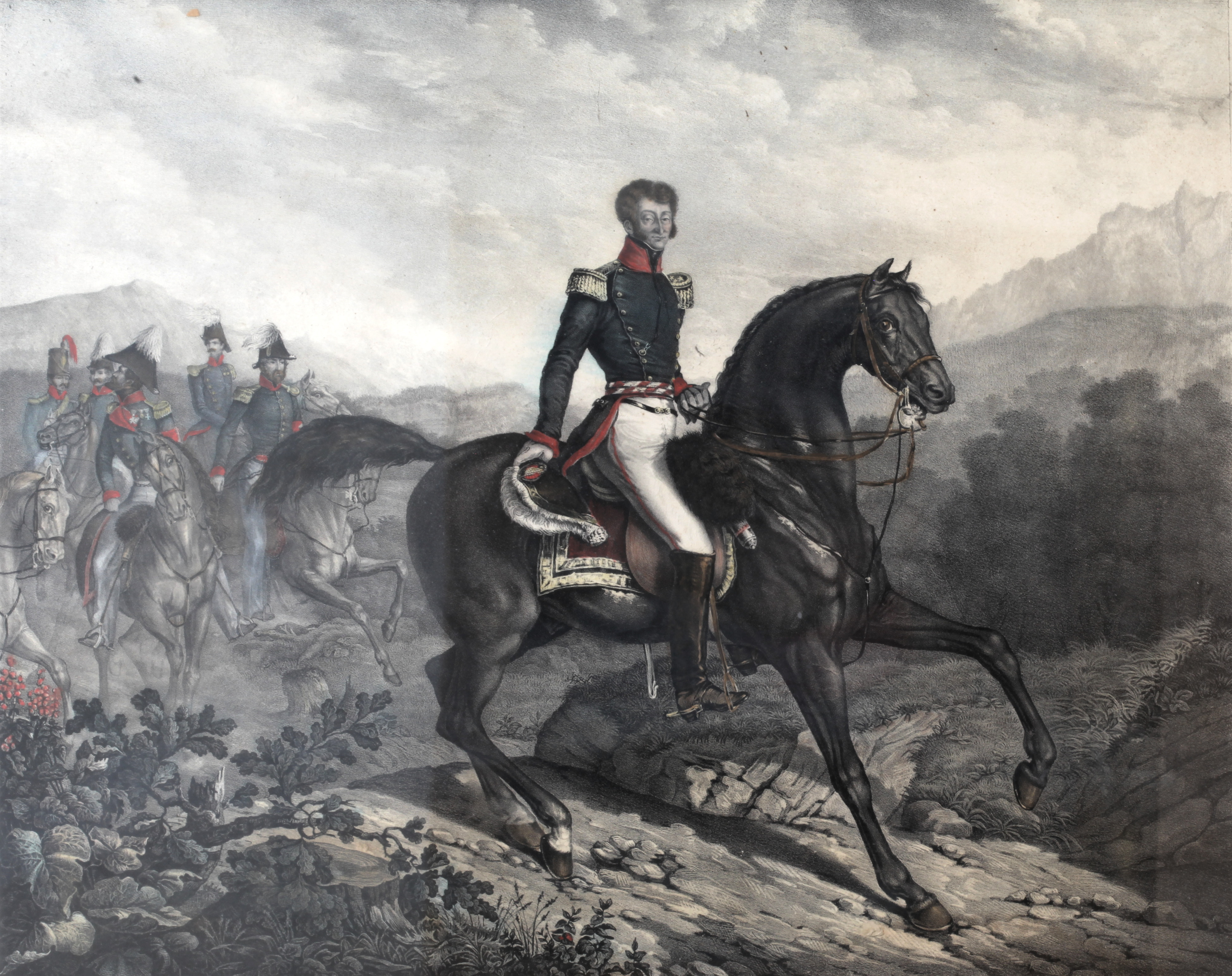 Charles-Jules Guiguer de Prangins. Painting by F. Elgger, lithography by Louis Wegner in 1842, printed by Orell Fussh and Co., Zurich. On display at Morges military museum.